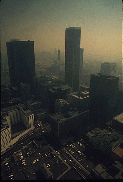 Los Angeles, California, in heavy smog, 09/1973